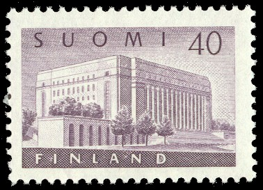 Postage stamp depicting the Parliament House of Finland in Helsinki